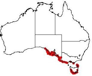 Exocarpos syrticola Occurrence data from Australasian Virtual Herbarium downloaded 2019-08-24 using